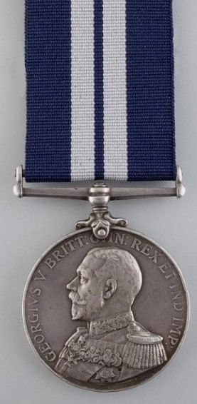 DSM, British Royal Navy gallantry medal, George V obverse